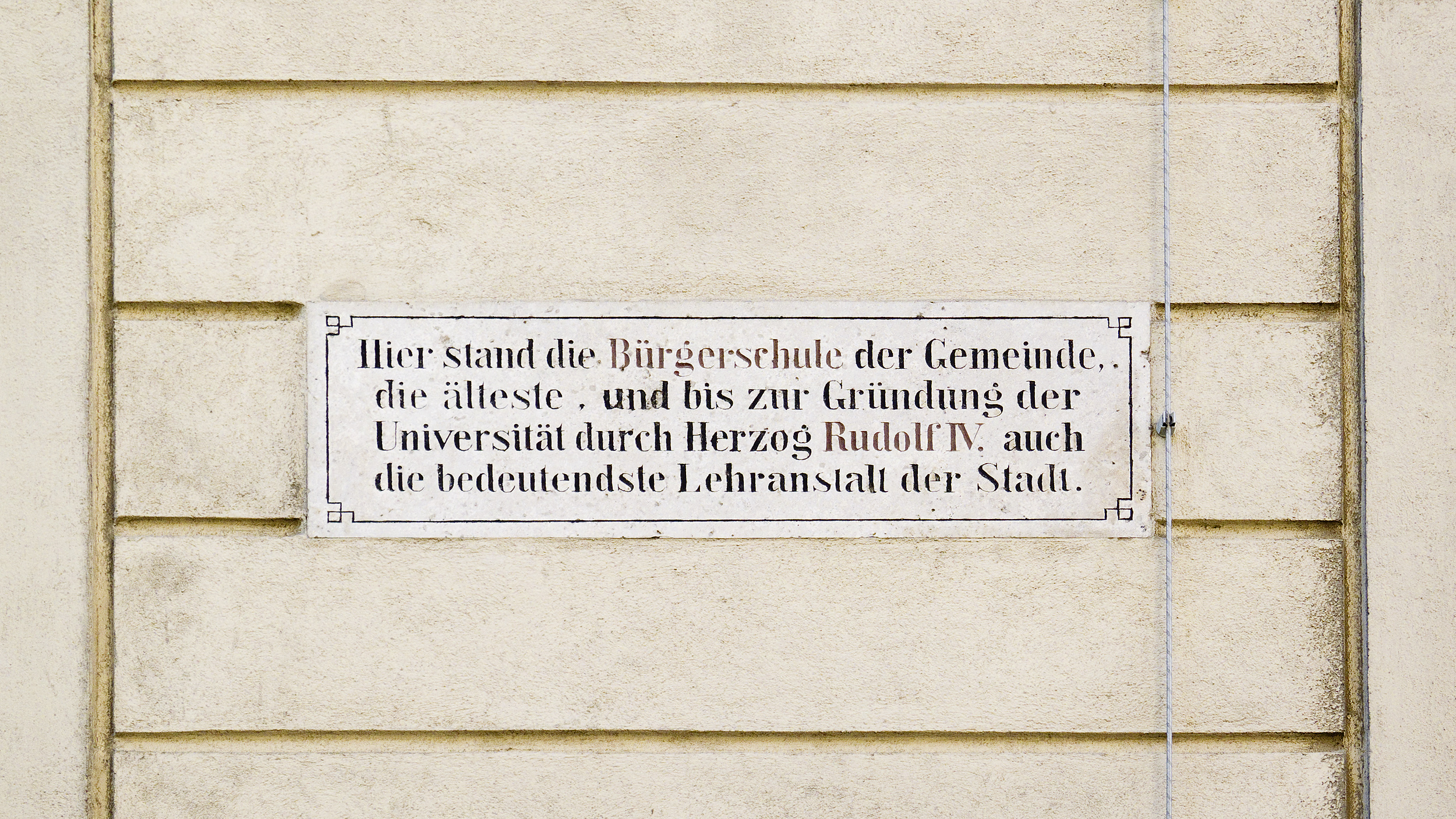 Residential building Stephansplatz 4, Vienna (Placard)